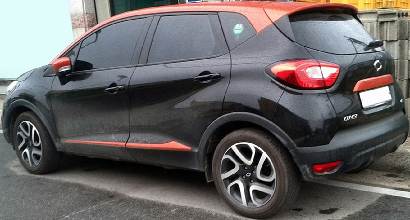 Renault Samsung QM3